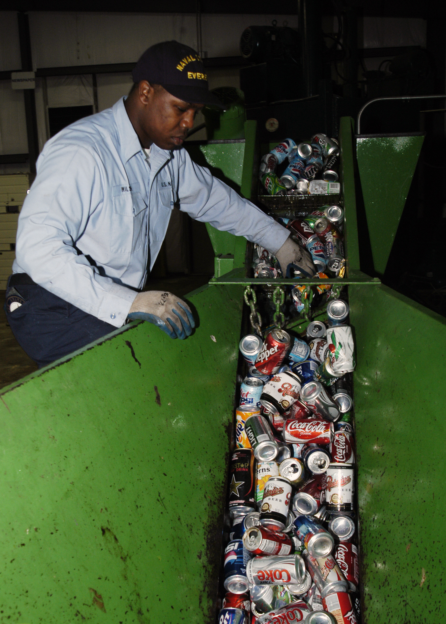 Everett, Wash. (May 31, 2005) - Fireman Brian Wilson of Charleston, S.C., separates bottles from aluminum cans at the Navy Recycling Center on board Naval Station Everett, Wash. Navy Recycling Center Everett raised over $177,000 last year and won the 2004 Gold Excellence Award. All the money from the Navy Recycling Center goes back to the Sailors through Moral Recreational and Welfare (MWR) and leisure activities. U.S. Navy photo by Photographer's Mate 3rd Class Jacob J. Kirk (RELEASED)